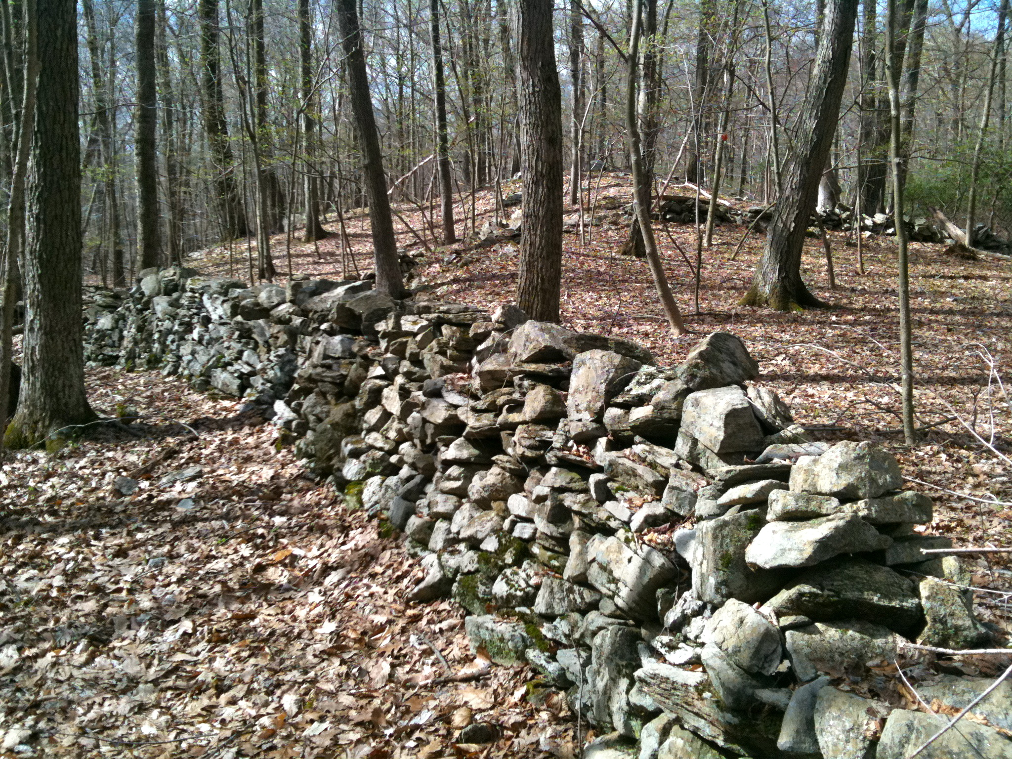 Aspetuck Valley Trail. Blue-Blazed CFPA foot path in Connecticut Centennial Watershed State Forest which connects to Huntington State Park at the northern terminus and which follows the Aspetuck River from Newtown, CT through Redding and Easton, CT. Old abandoned farm stone fence in Centennial State Forest along Aspetuck Valley Trail in Newtown, CT Blue-Blazed CFPA foot path in Connecticut Centennial Watershed State Forest which connects to Huntington State Park at the northern terminus and which follows the Aspetuck River from Newtown, CT through Redding and Easton, CT.